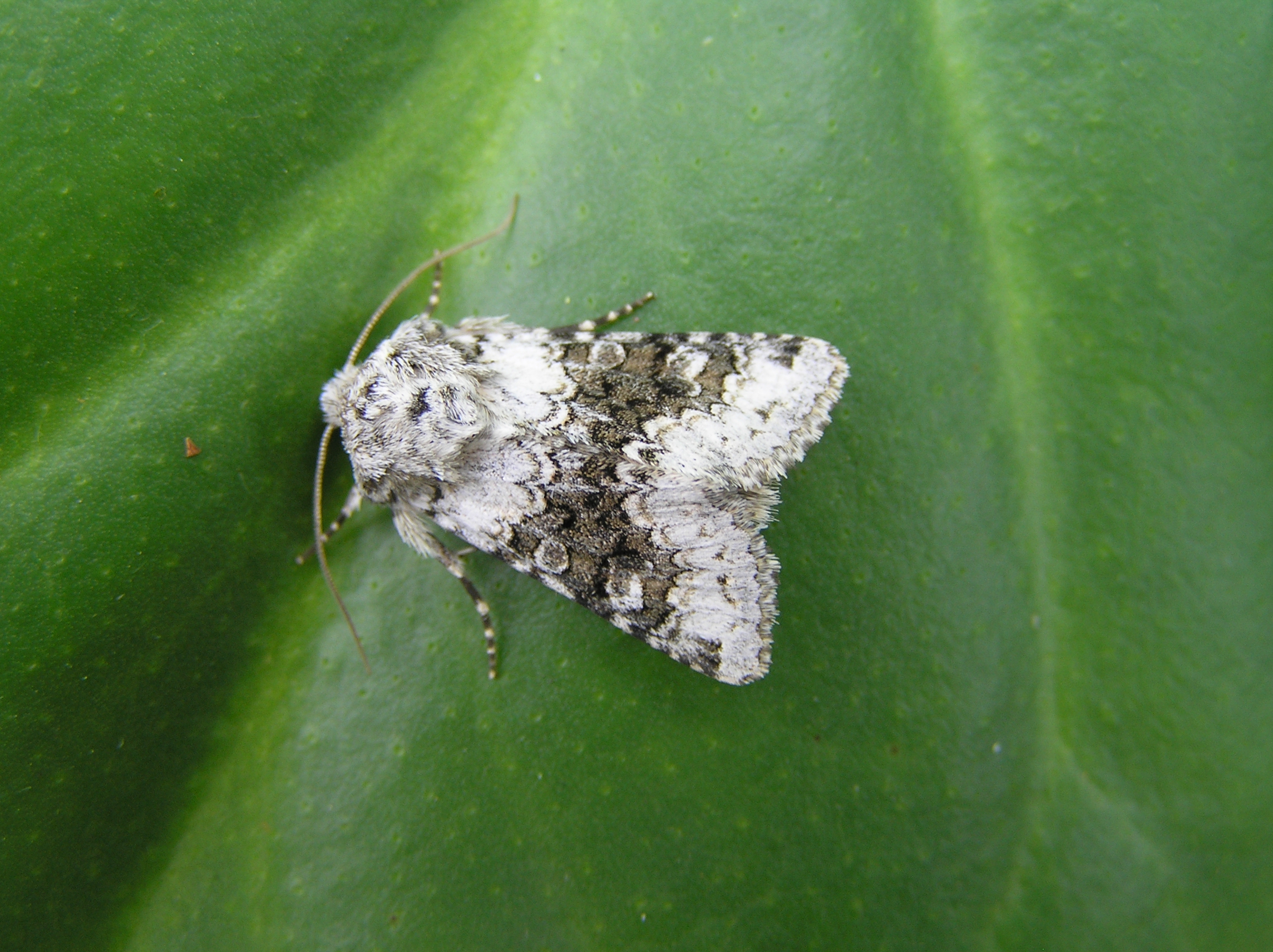 Hecatera bicolorata (Goes, the Netherlands)